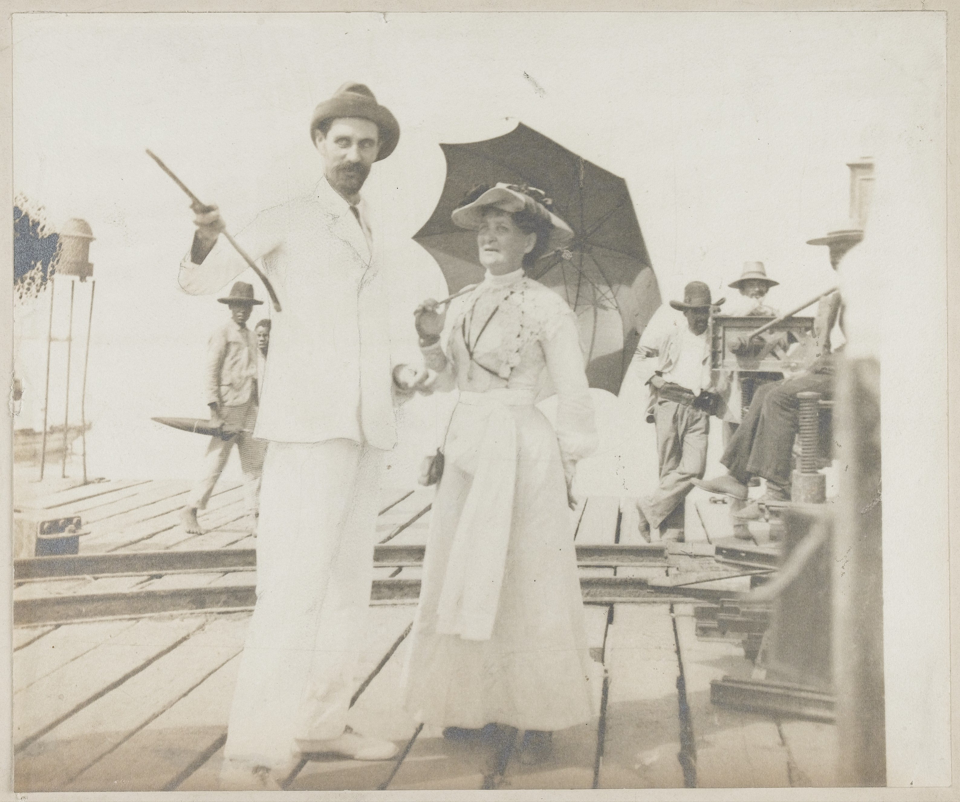 Roger Casement and Mrs French Sheldon. On the back of this photograph is written 'Roger Casement and Mrs French Sheldon - Casement declaring that Germany would take and rule the Congo. Photograph by W.L. Royburgh, 1904'. The letters W.H.M.M, are also stamped onto the front and back of the photograph Archives & Manuscripts Keywords: Roger Casement